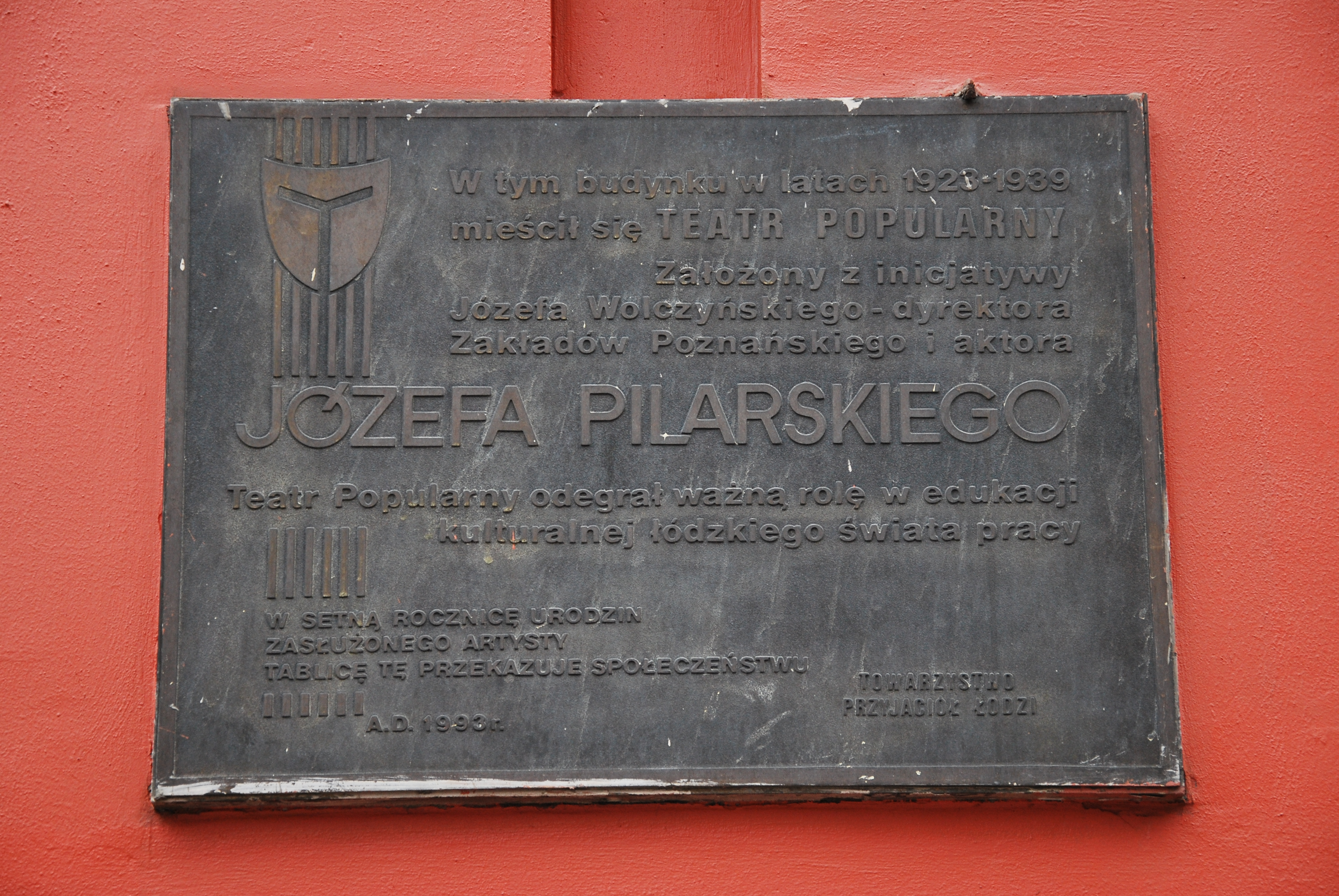 Plaque Teatr Popularny, Łódź 18 Ogrodowa Street